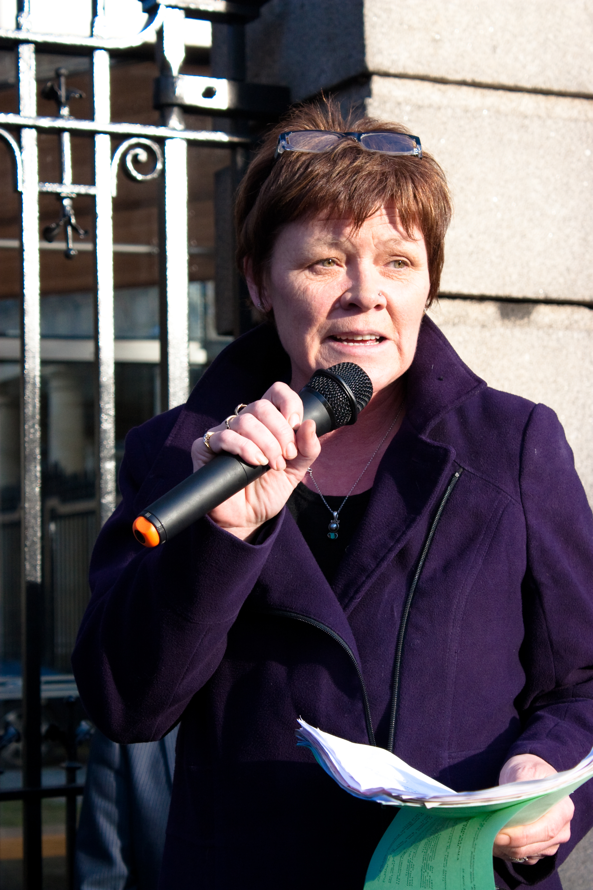 Joan Collins